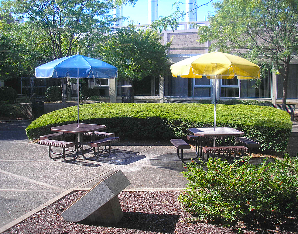 Trees Hall interior courtyard at the University of Pittsburgh